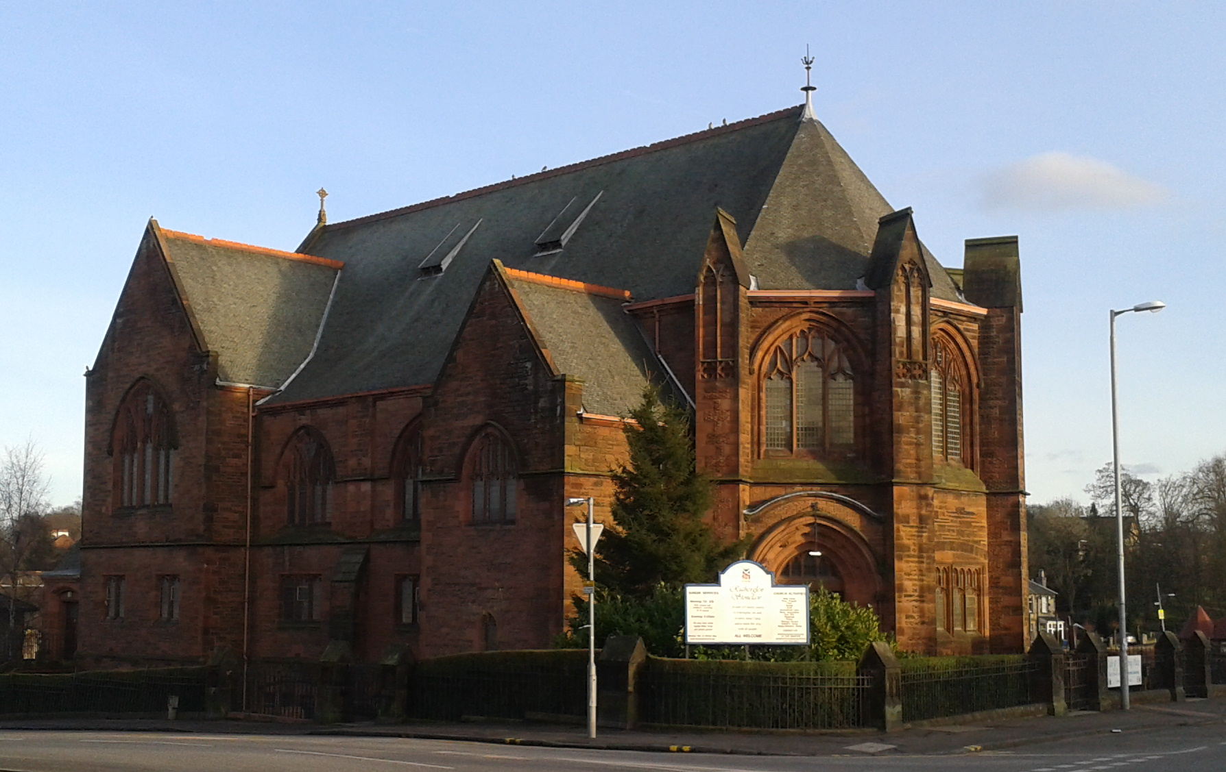 Stonelaw Parish Church, 153 Stonelaw Road, Rutherglen.